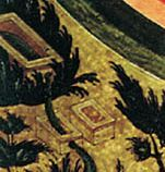 Detail of Blessed is the Host of the King of Heaven (alternatively known as Church Militant). Russian icon, ca. 1550 - 1560. Tretyakov Gallery. This icon is traditionally perceived as an allegorical representation of the conquest of the Kazan khanate.